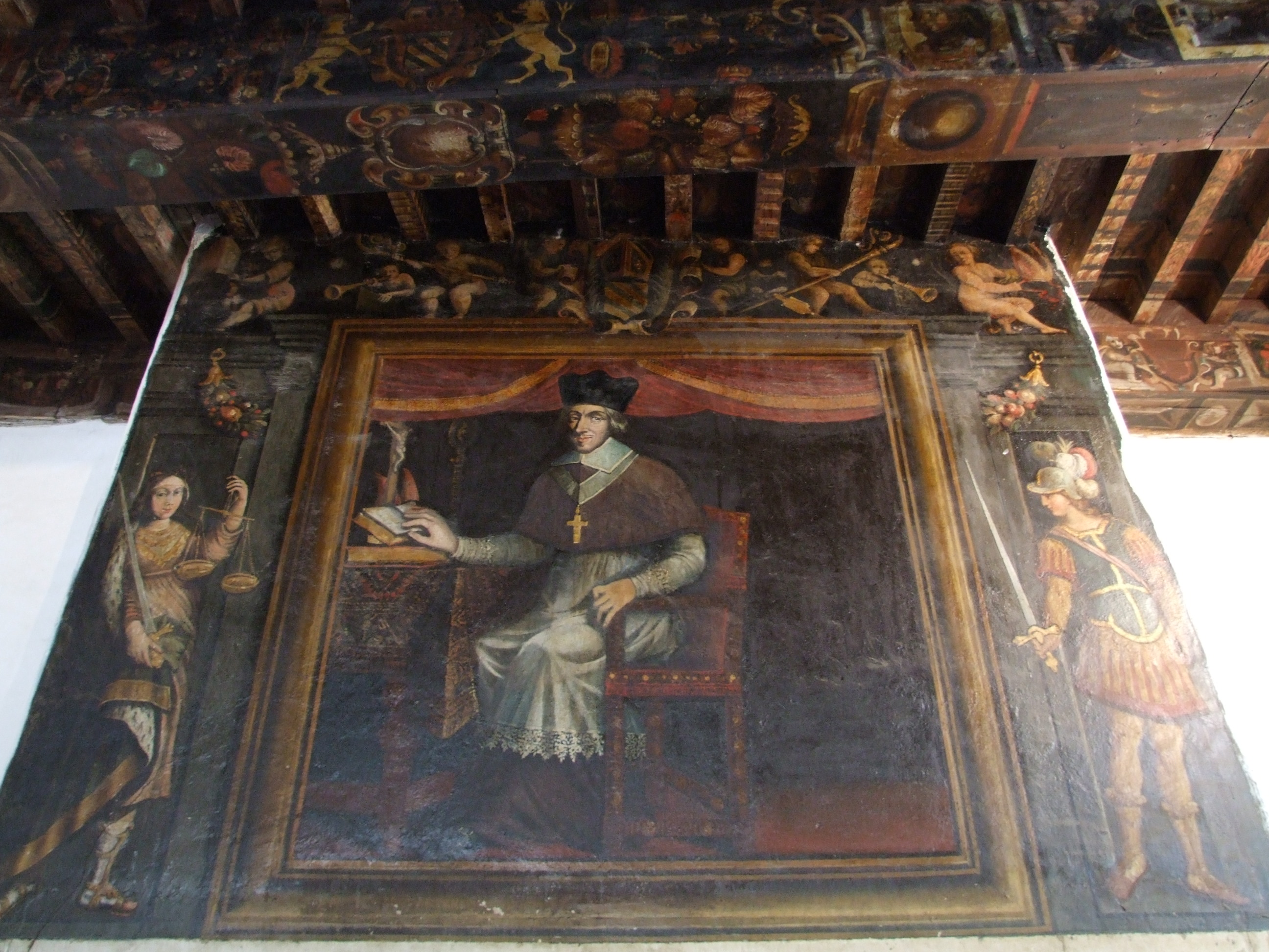 Carennac, Lot, FRANCE